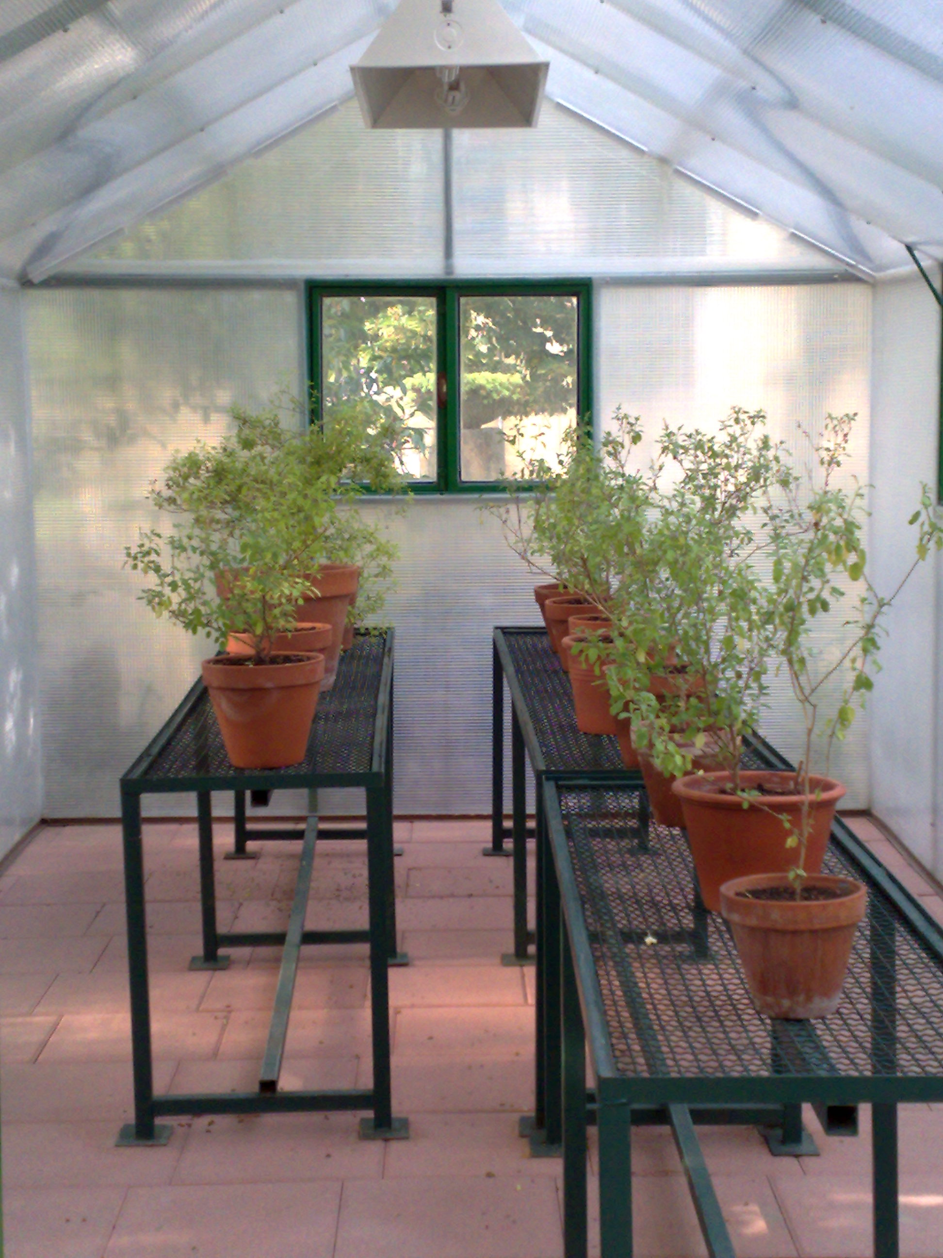 Tulasi in Prabhuapada desh, hare krishna temple in Vicenza